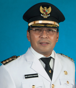 Mohammad Ramdhan Pomanto, Mayor of Makassar since 2014